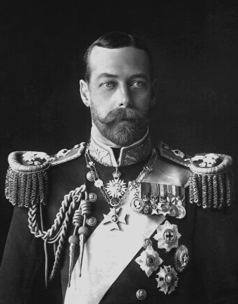 Photograph of King George V (1865-1936)